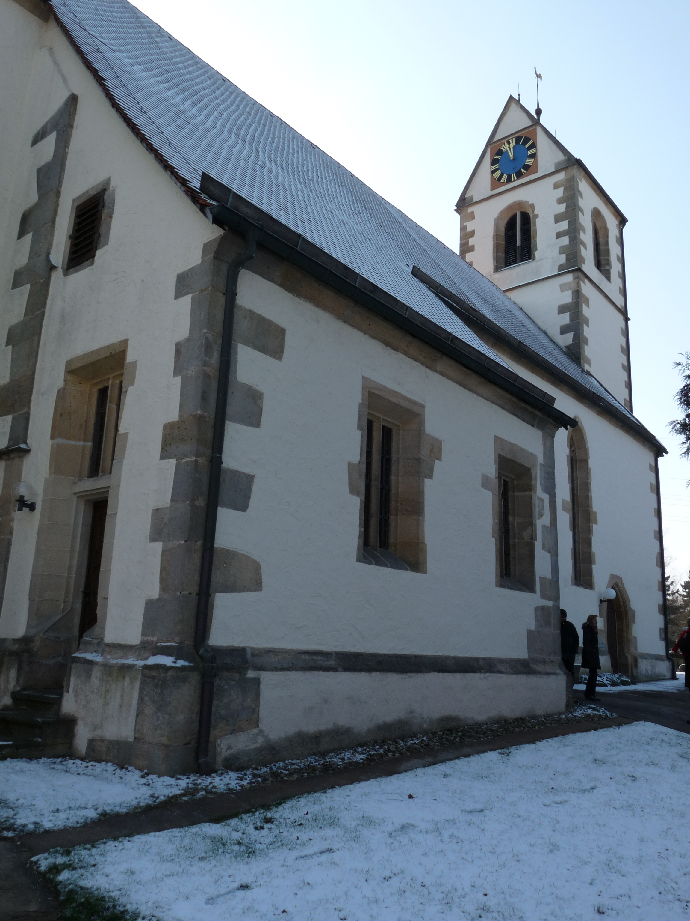 Saint Gall church in Derendingen, Primož Trubar's burial site